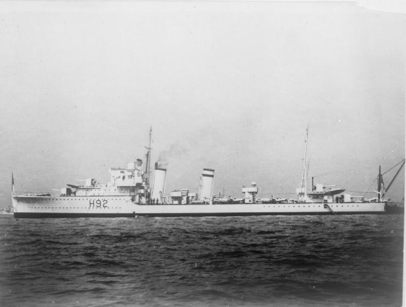 British destroyer HMS GLOWWORM at anchor.